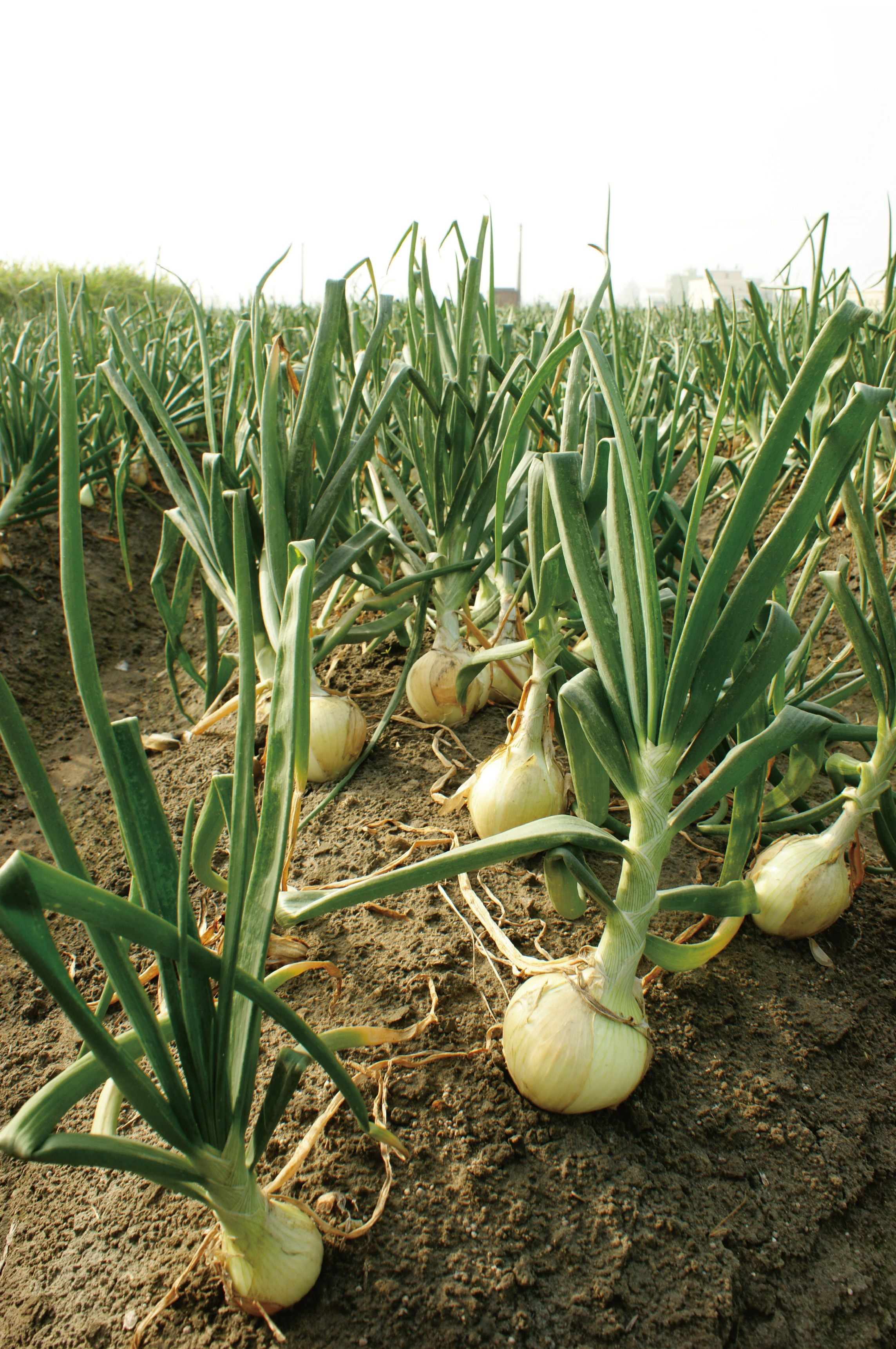 onion